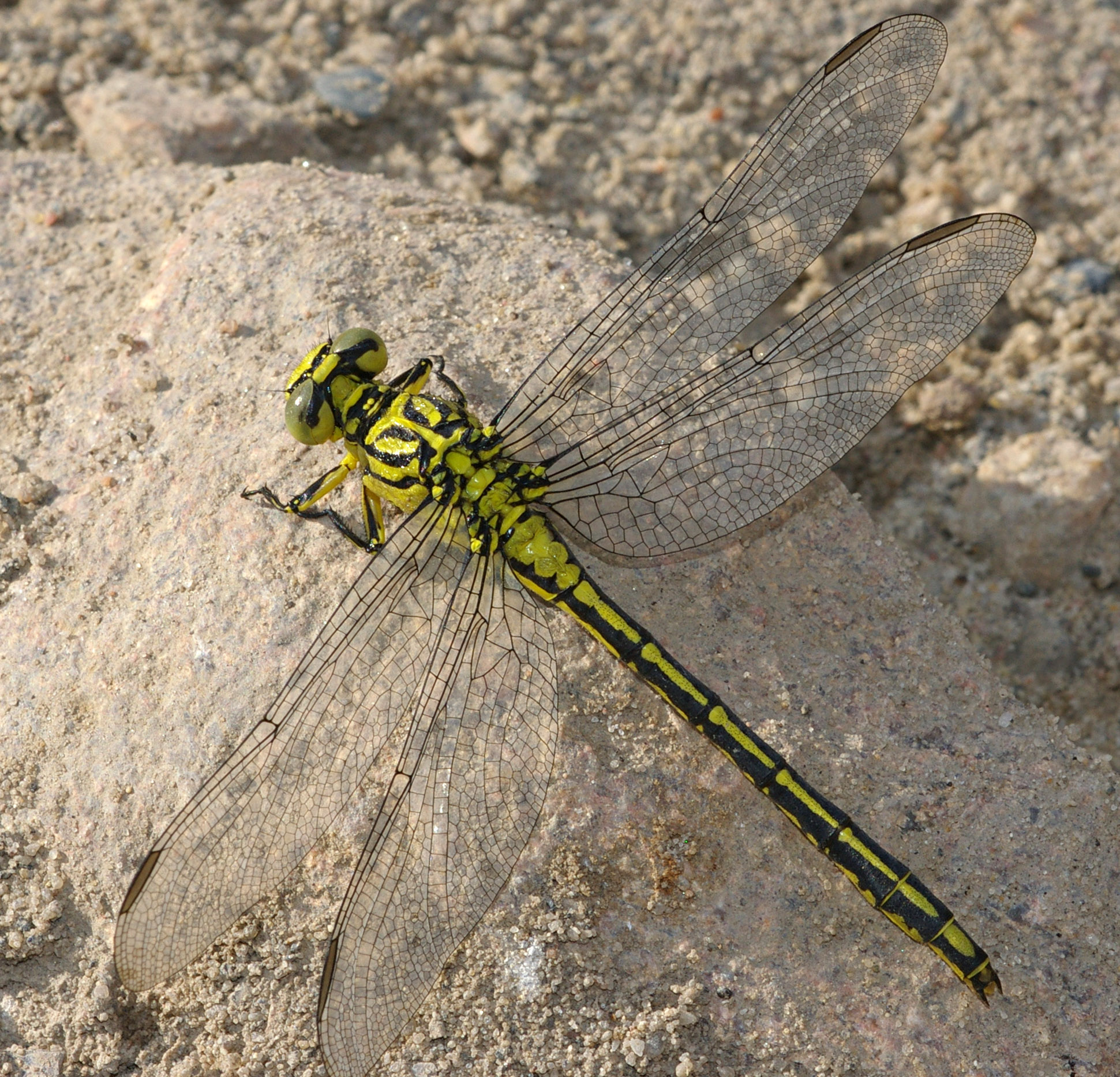 Young female specimen of the dragonfly Gomphus flavipes ("River Clubtail").